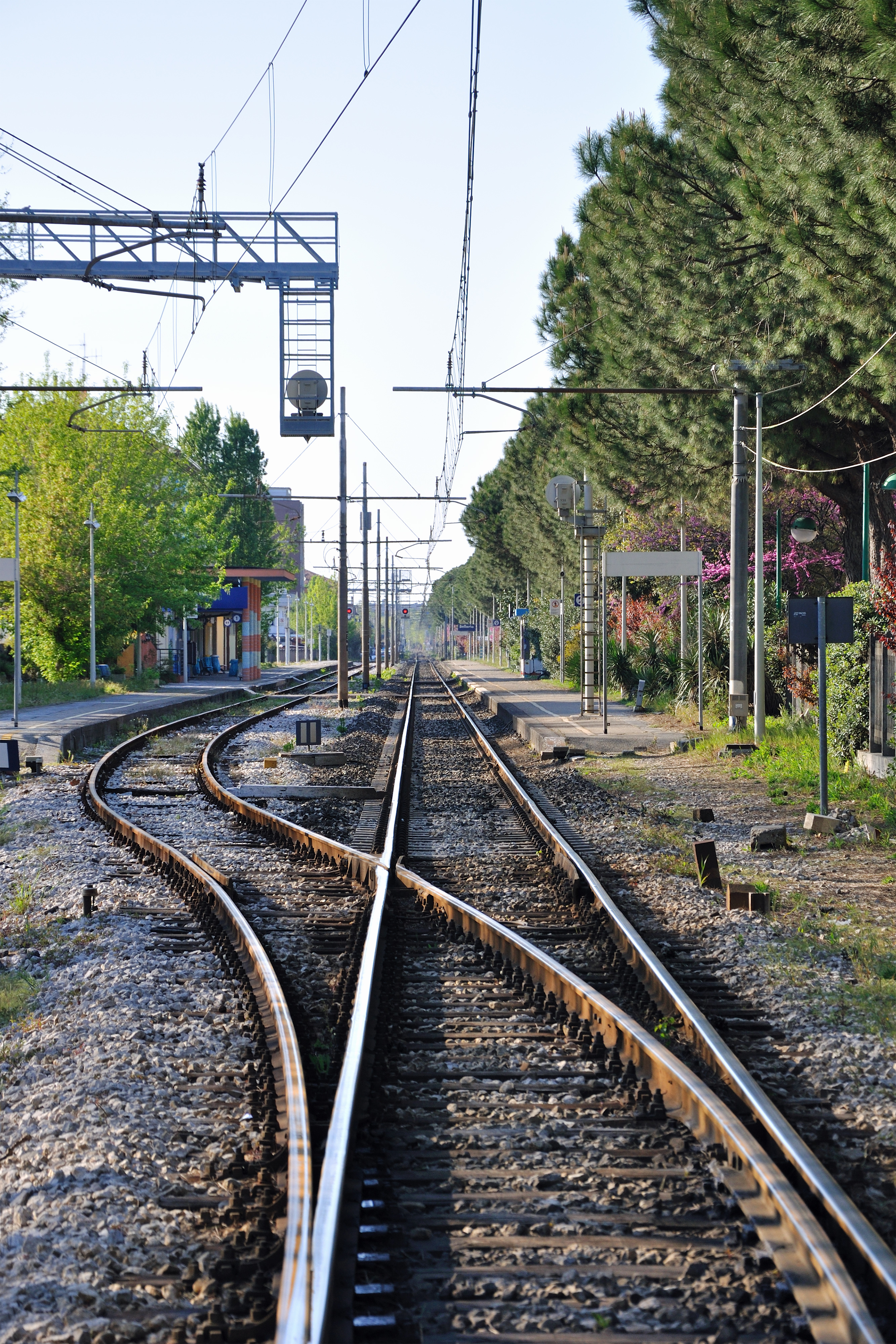 Train Station - Bellaria-Igea Marina, Rimini, Italy